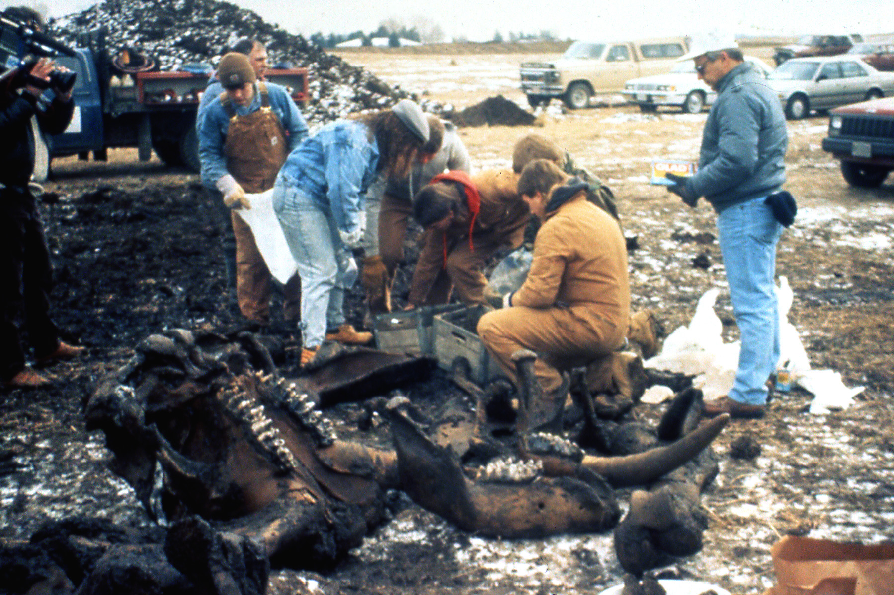 Burning Tree Mastodon excavation (mid-December 1989), Burning Tree Golf Course, Heath, east-central Ohio 02